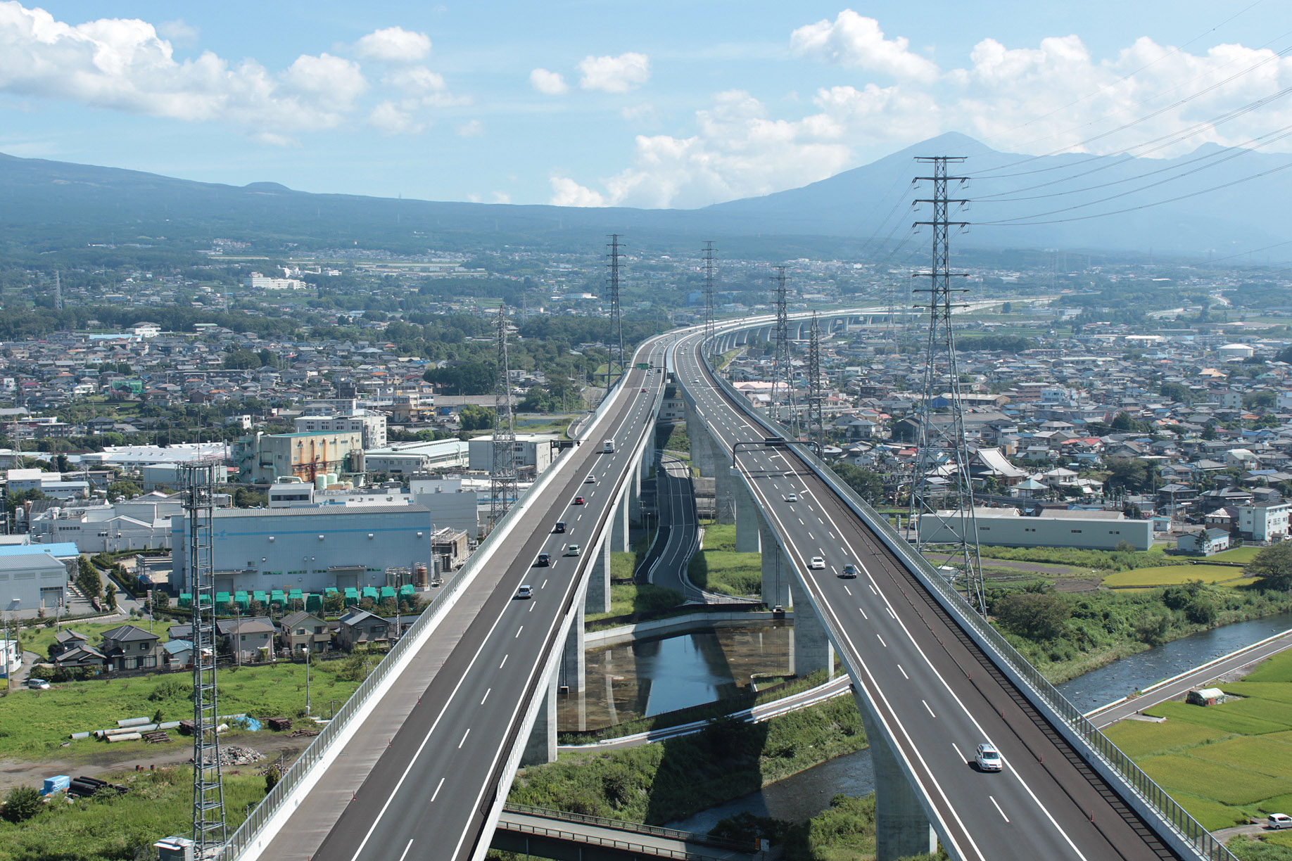 Fuji Viaduct of Shin-Tōmei Expressway in Fuji, Shizuoka Prefecture.